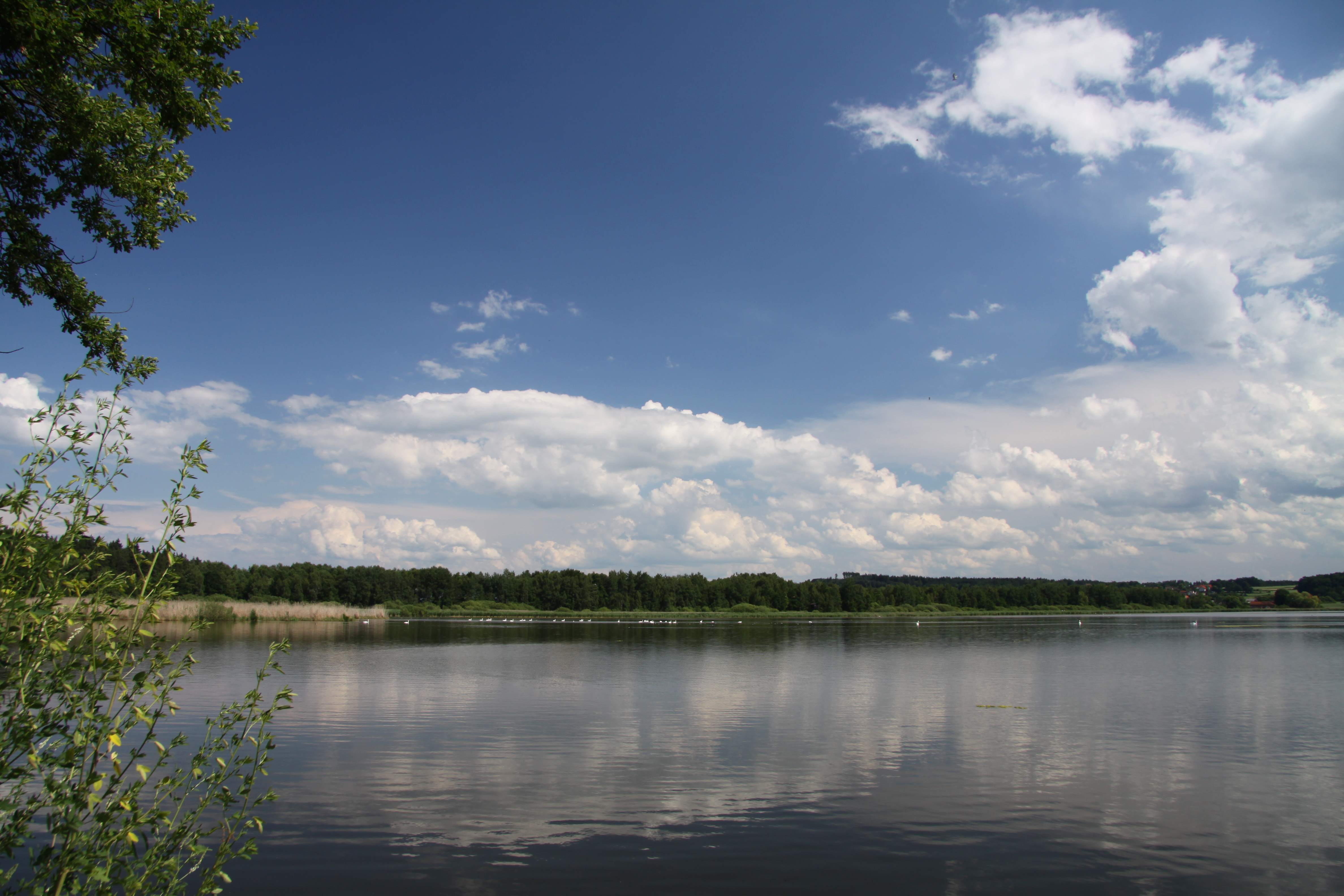 Řežabinec pond in national nature reserve Řežabinec a Řežabinecké tůně in Písek District, Czech Republic